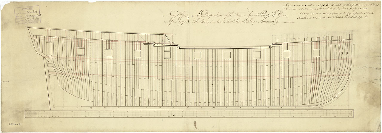 Cormorant (1794); Favourite (1794); Hornet (1794); Hazard (1794); Lark (1794); Lynx (1794); Stork (1796) Scale: 1:48. Plan showing the framing profile (disposition) for building Cormorant (1794), Favourite (1794), Hornet (1794), Hazard (1794), Lark (1794), Lynx (1794) and in 1795 for Stork (1796), all 16-gun Ship Sloops with quarterdecks and forecastles. The body plan was similar to the captured French Sixth Rate Corvette Amazon (captured 1745). HAZARD 1794